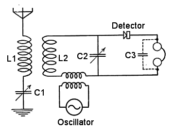 A heterodyne radio receiver circuit, invented in 1901 by Canadian engineer Reginald Fessenden to receive continuous wave (CW) radiotelegraphy transmissions. This was the first use of the "heterodyne" principle which Fessenden discovered. The CW radiotelegraph signal from the antenna consisted of pulses ("dots" and "dashes") of carrier wave at a radio frequency fC, which spelled out text messages in Morse code. The problem was that since the carrier had no modulation, it simply sounded like silence in the earphones of an ordinary receiver. In the heterodyne receiver, an electronic oscillator generates an unmodulated sine wave signal at a frequency fO offset from the carrier, which is added to the incoming signal from the tuned circuit. These two frequencies mix in the nonlinear crystal detector, generating a heterodyne (beat) frequency at the difference between these frequencies: fH = fC − fO whenever the carrier is present. If the local oscillator frequency is chosen correctly this heterodyne frequency will be in the audio range. Therefore the "dots" and "dashes" of Morse code will be audible as musical "beeps" in the earphones. When Fessenden invented it, there was no practical source of continuous RF sine waves to use for the oscillator. Fessenden used his enormous prototype radio alternator, but this wasn't practical. The heterodyne receiver remained a laboratory curiosity until 1913, when a cheap compact source of sine waves came along, the triode vacuum tube feedback oscillator invented by Edwin Armstrong, after which it became the standard way of receiving CW radiotelegraphy signals. Fessenden's heterodyne oscillator is the ancestor of the beat frequency oscillator used in modern superheterodyne receivers to receive CW signals. Alterations to image: changed "alternator" schematic symbol in original image to general AC source symbol, added labels